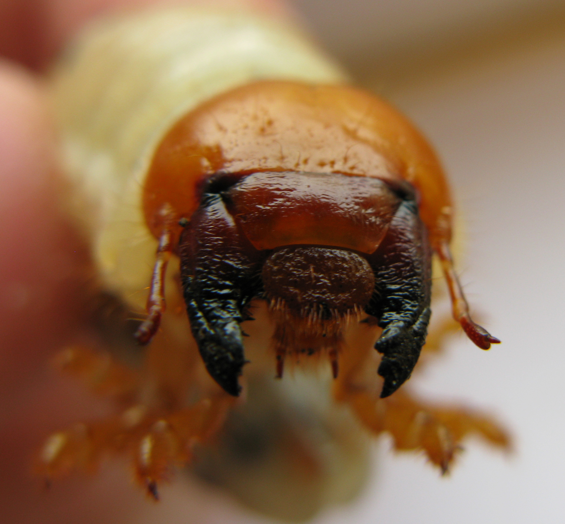 lucanus cervus larva`s head close up